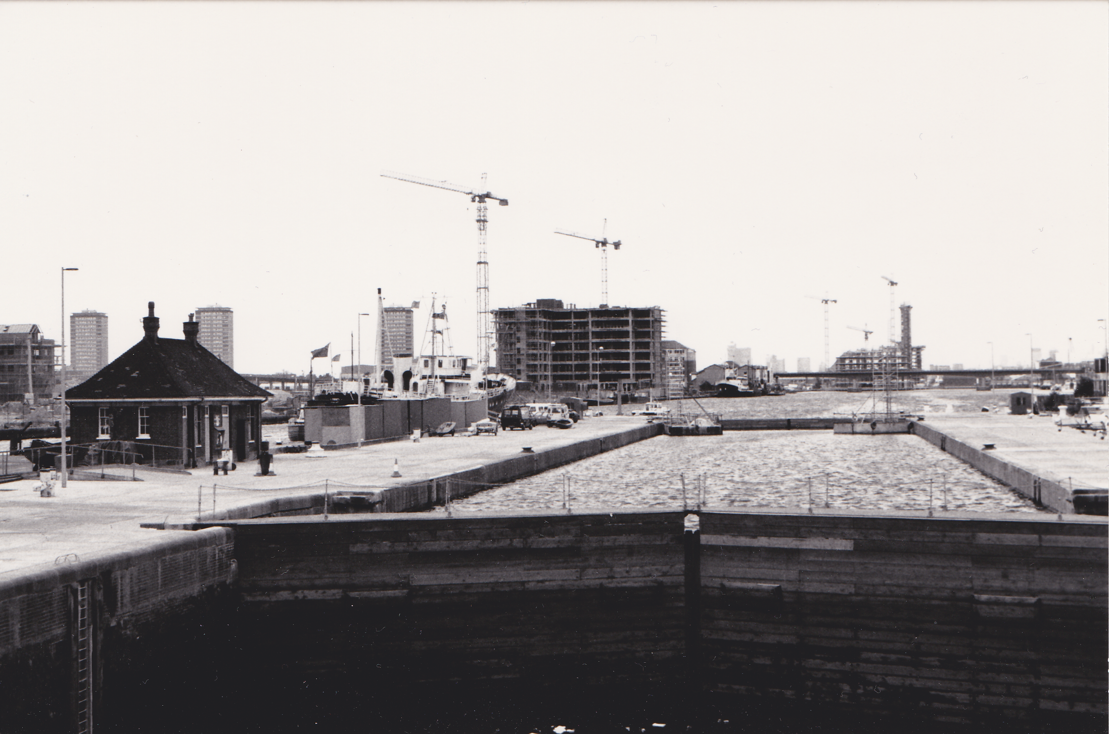 South Dock (West India Docks), East London. Image taken before the development of Canary Wharf.